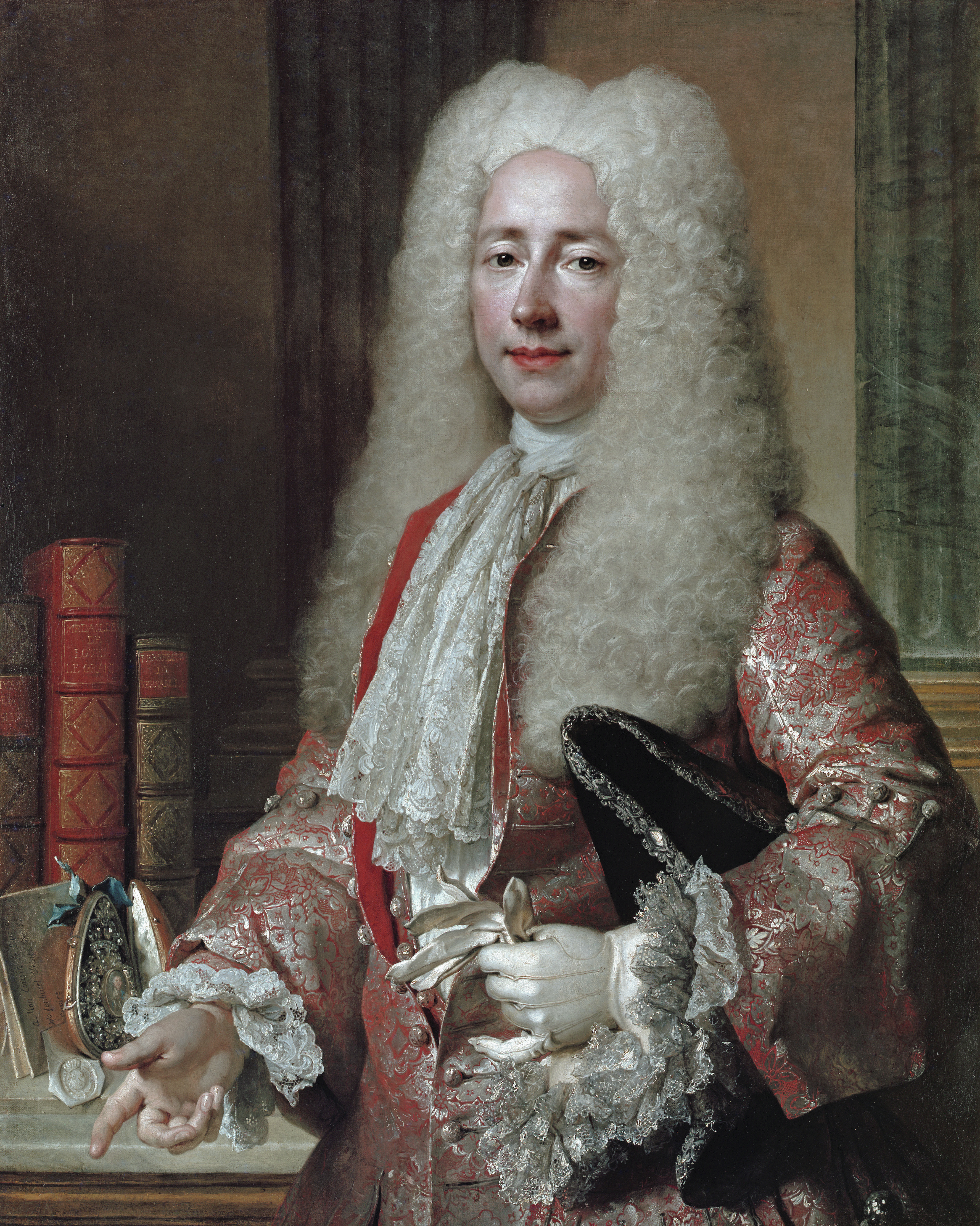 Konrad Detlef Graf von Dehn oil on canvas, 92 x 73,5 cm 1724